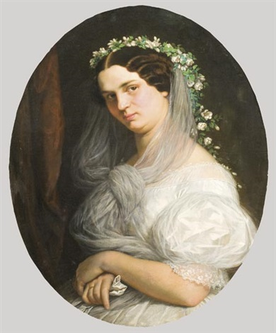 The bride, Anna Calderoni (Henrik Weber's wife) - by Henrik Weber - 1858